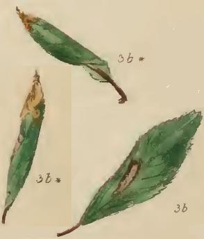 Stainton’s Natural History of the Tineina (1855–1873): Parornix torquillella - sloe leaf with mine of a young larva (3b); and sloe leaves screwed up by adult larvae (3b*)